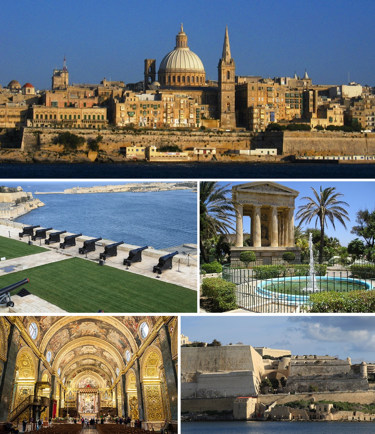 Montage of various landmarks in Valletta, Malta.